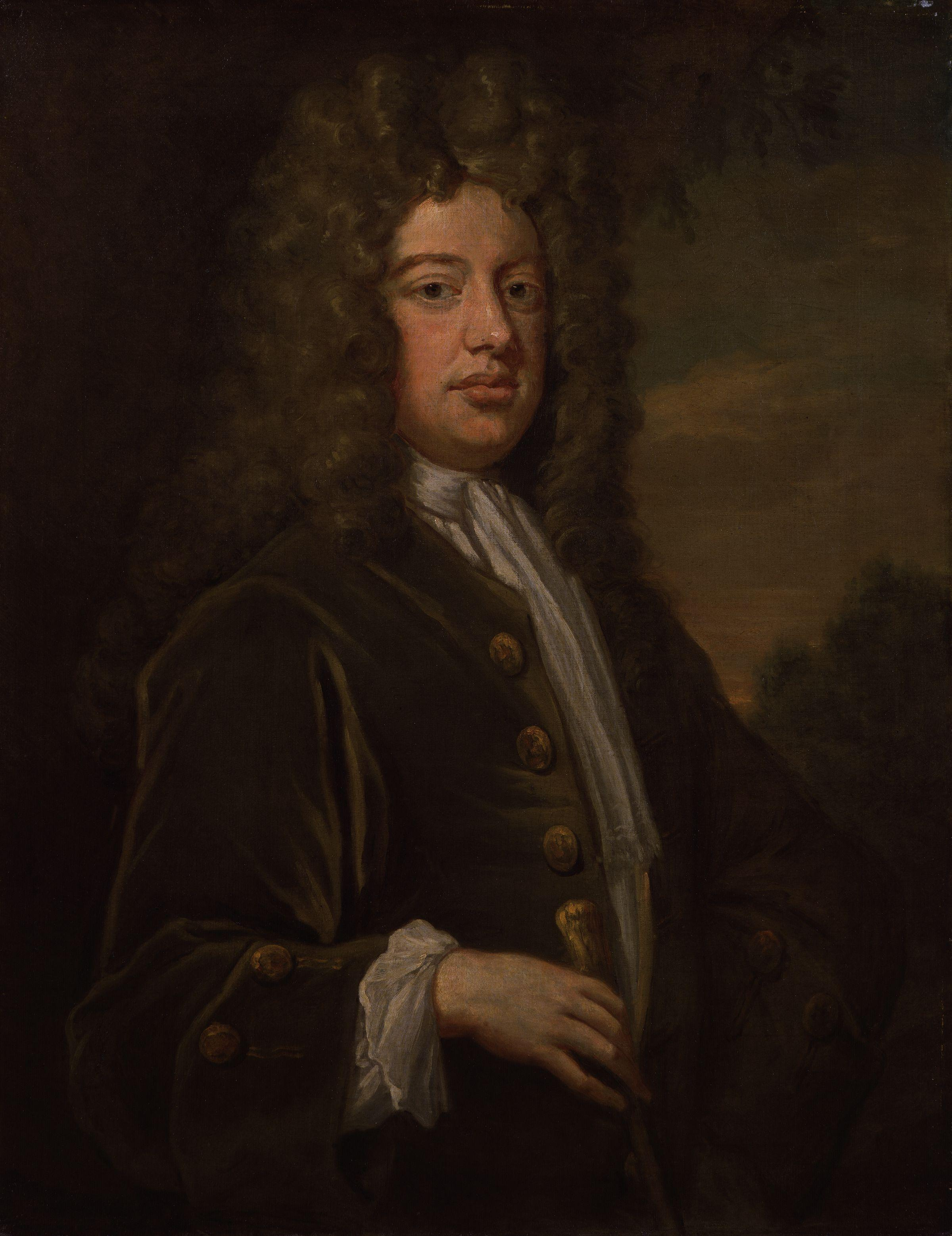 William Walsh, by Sir Godfrey Kneller, Bt (died 1723), given to the National Portrait Gallery, London in 1945. All images in this batch have been confirmed as author died before 1939 according to the official death date listed by the NPG.